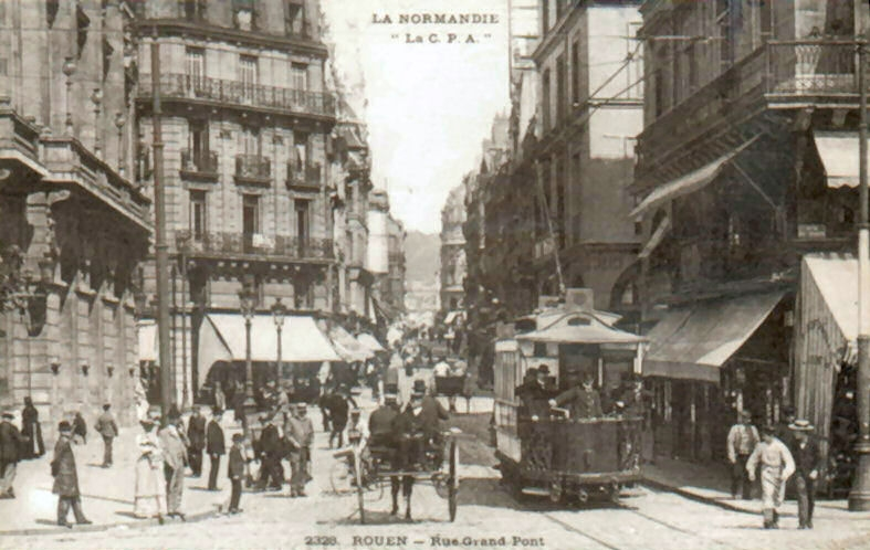 Tramway de Rouen - rue Grand pont